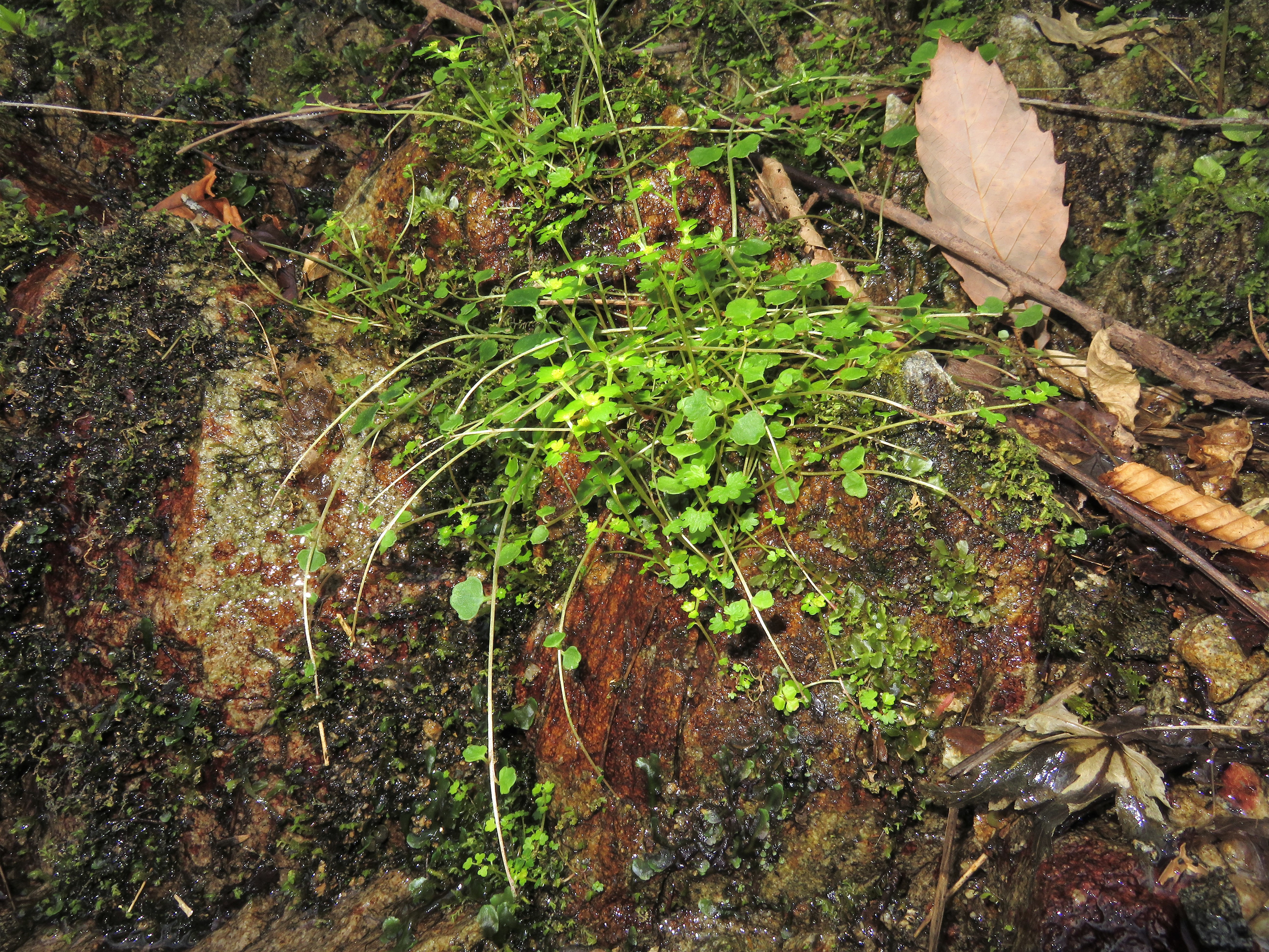 Chrysosplenium flagelliferum, Hama-dori area, Fukushima pref., Japan